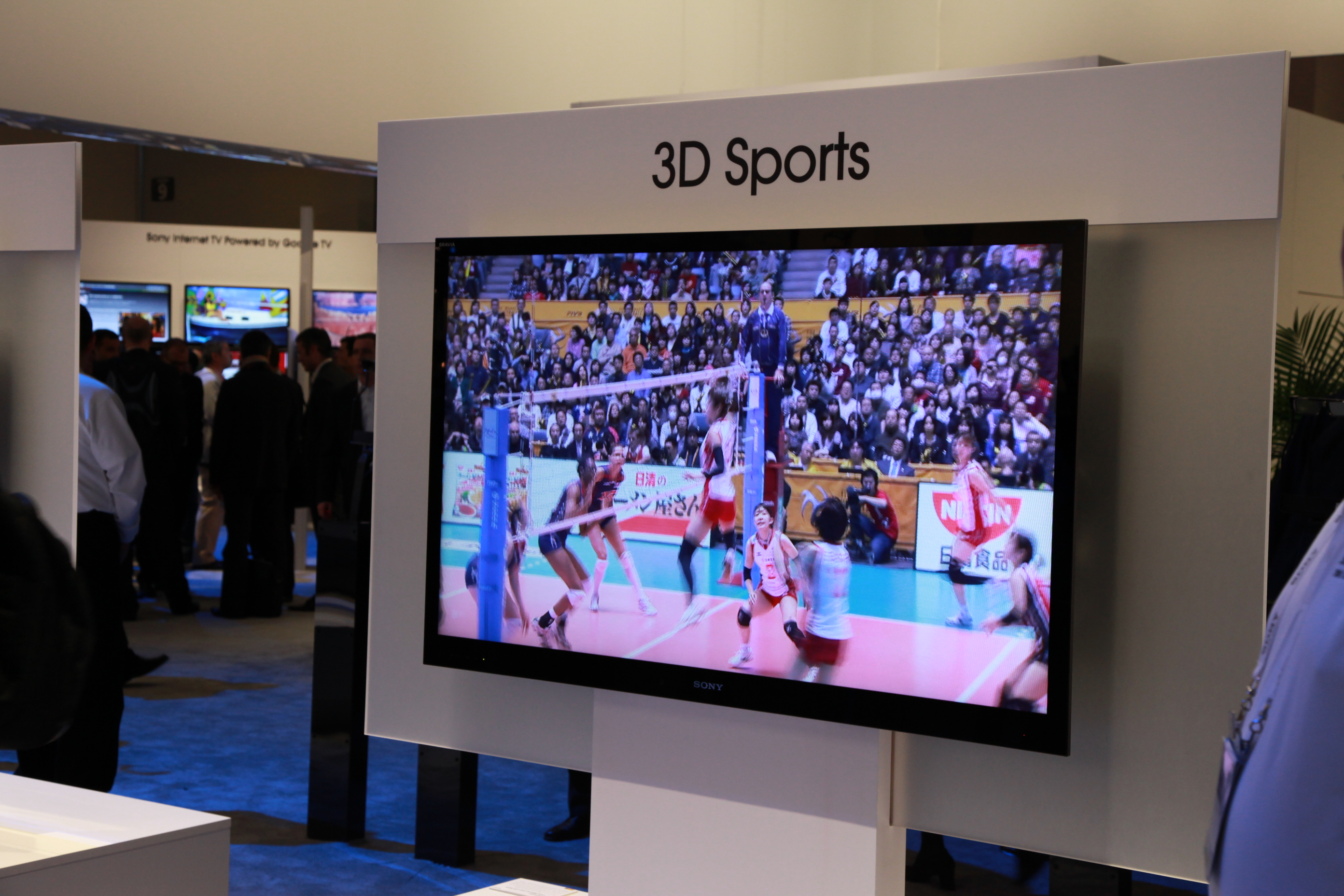 Sony Bravia 3D on display at CES 2011.